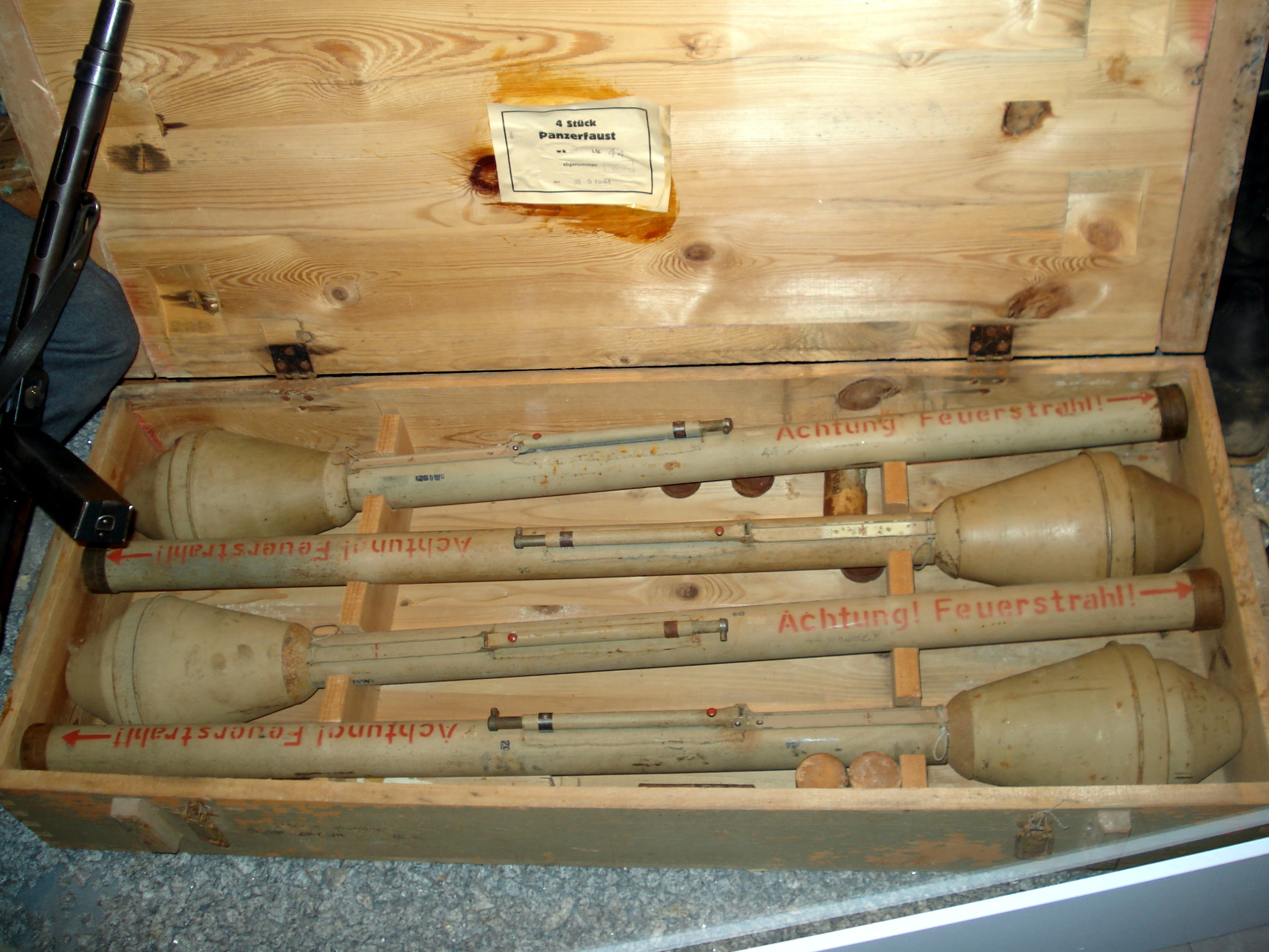 4 Panzerfausts 30 in the original case exhibited in the Helsinki Military Museum (Sotamuseo). These were delivered to the Finnish army from Germany in 1944.